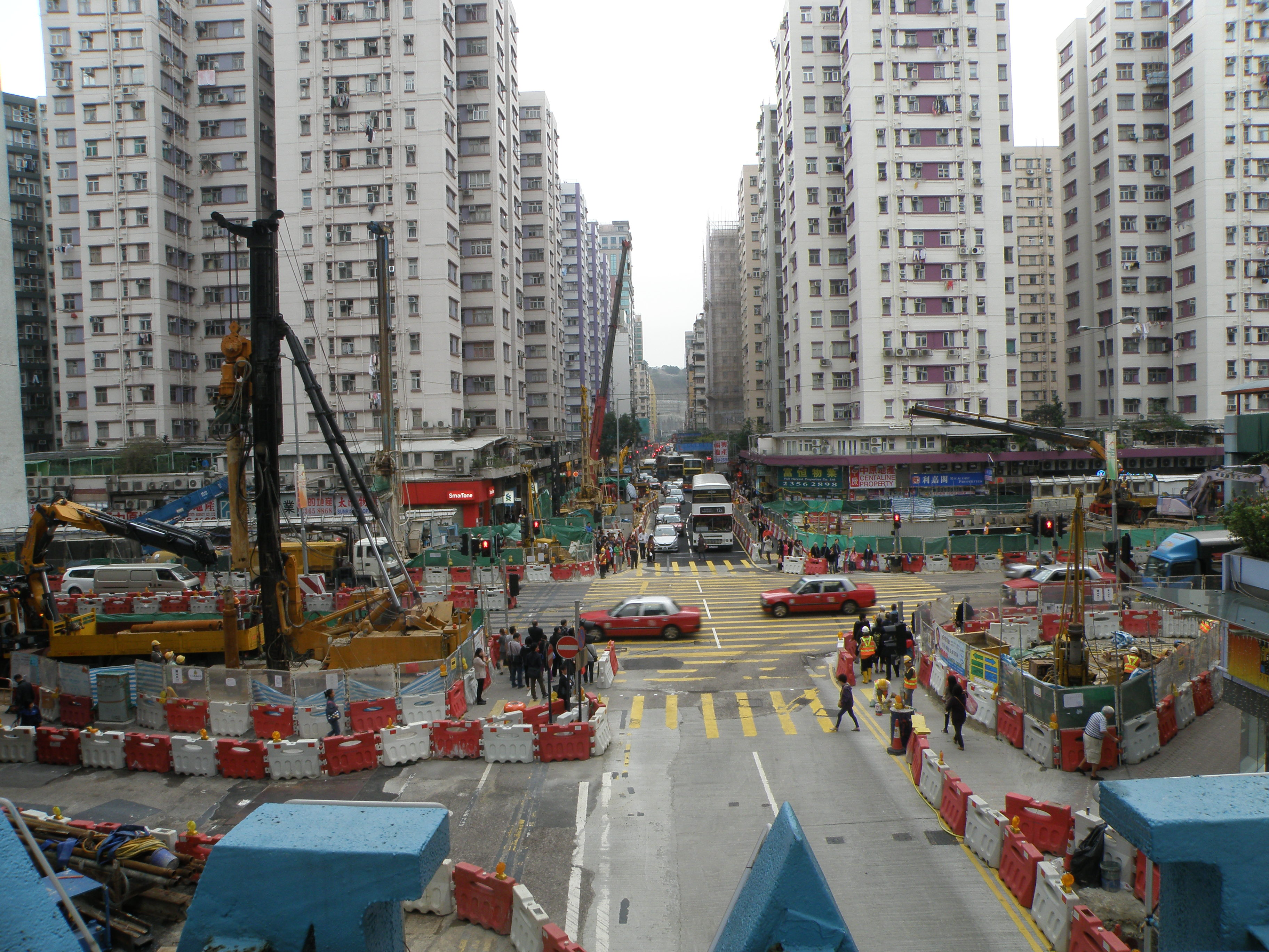 West underground concourse construction site of Whampoa Station